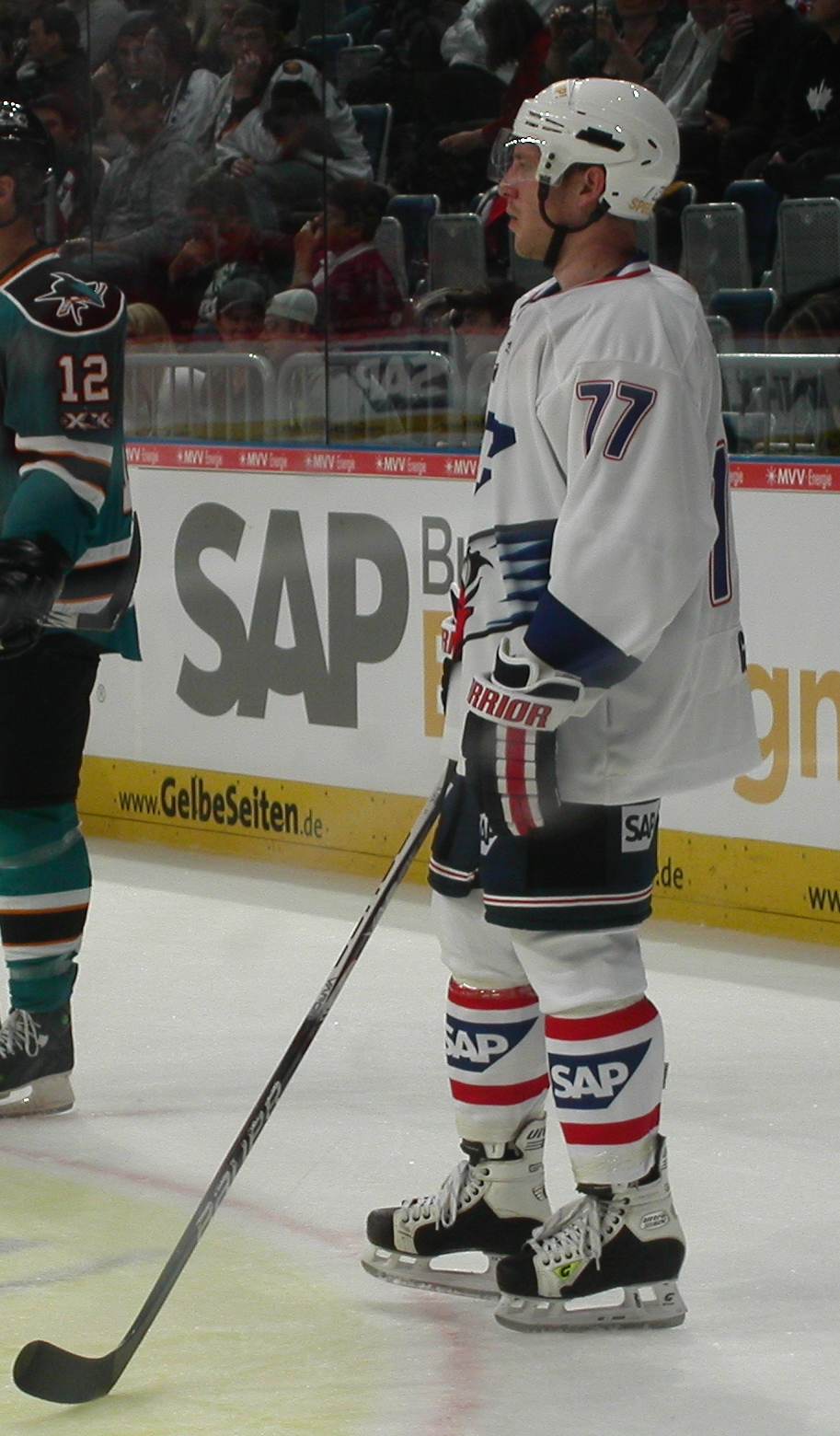 Nikolai Goc, Ice hockey player from Germany, defender